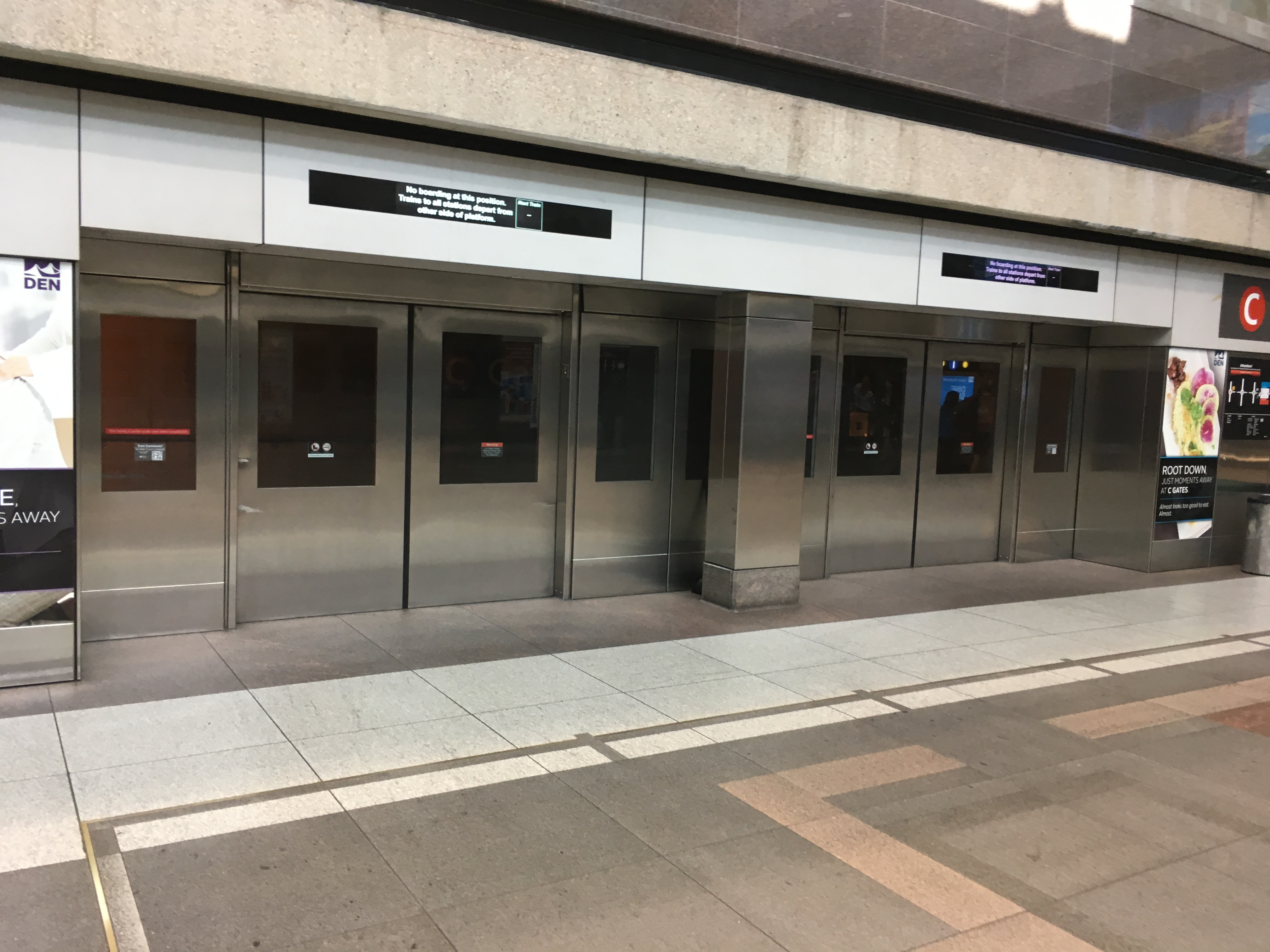 Concourse C Platform at Denver Airport